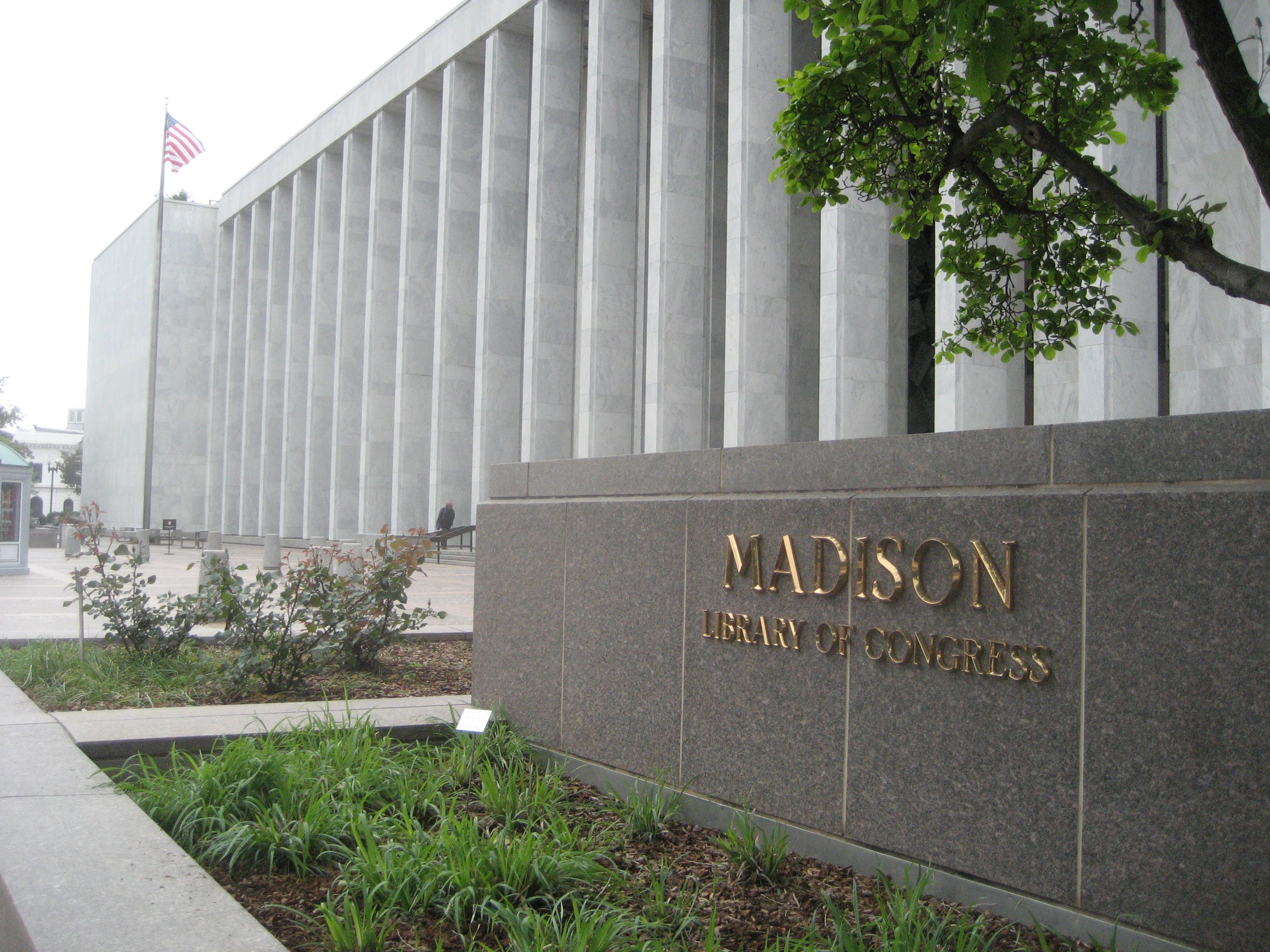 Madison Building, Library of Congress, Washington D.C.